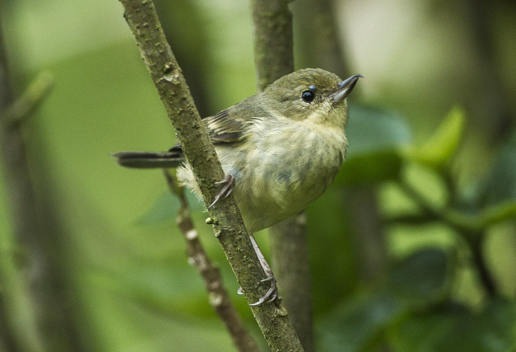 Rusty Flowerpiercer fem - Colombia_S4E8749